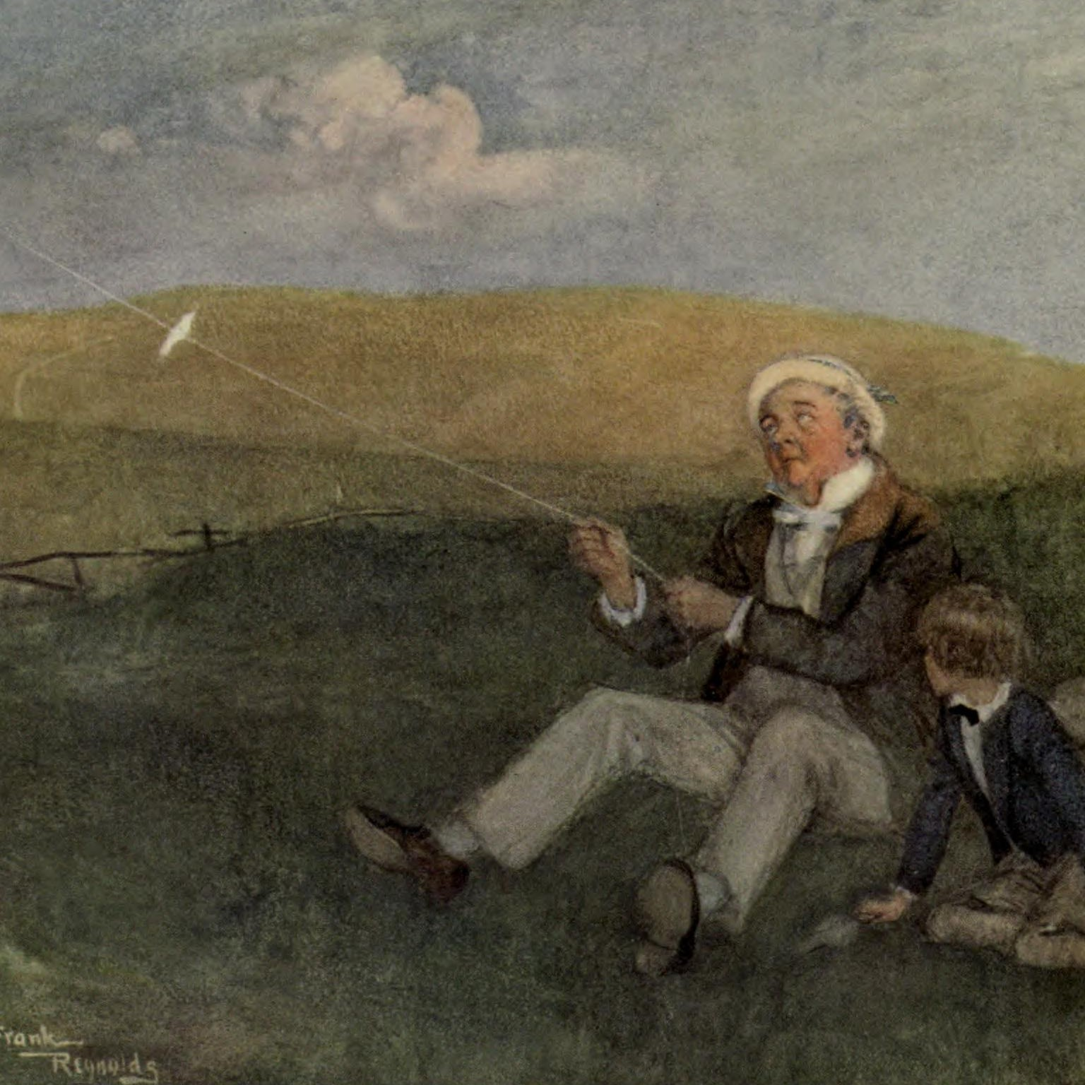 Mr Dick, a character in Charles Dickens' David Copperfield.